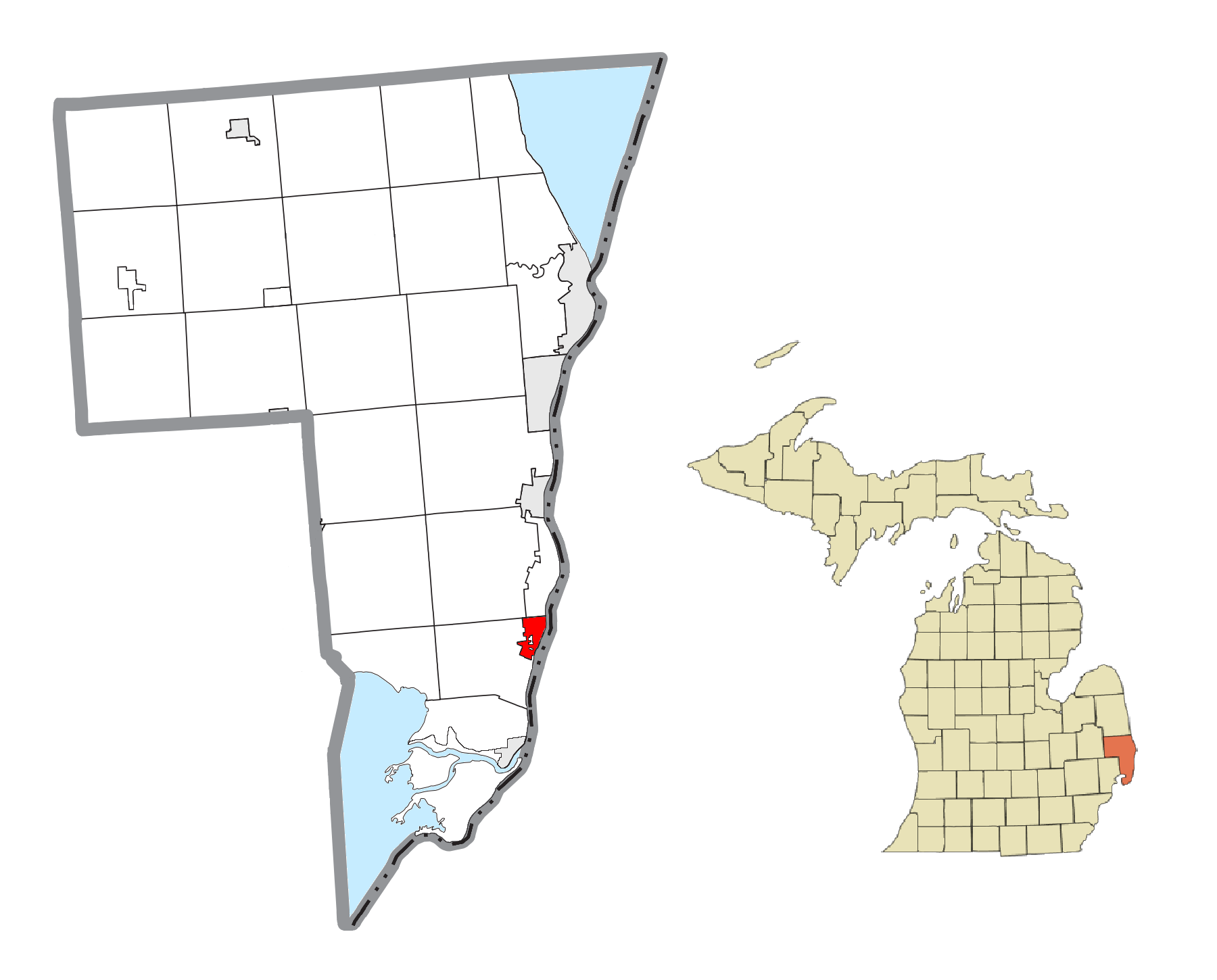 Marine City, MI